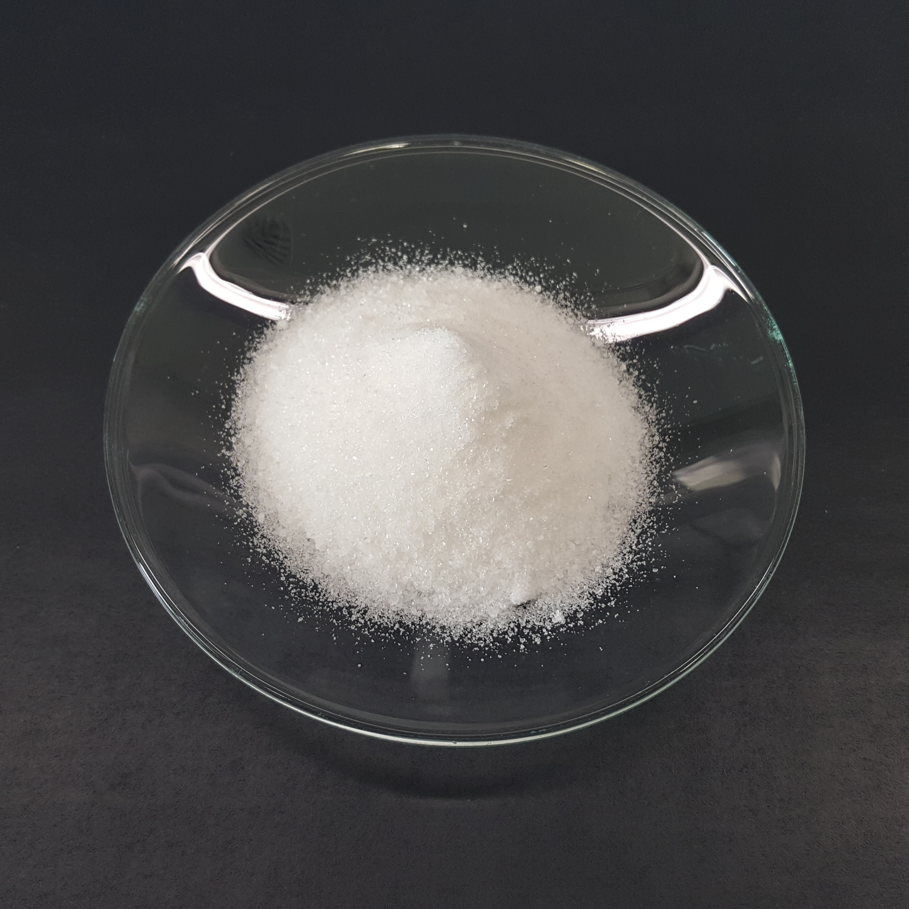 C2H5NO2 Glycine